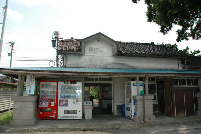 Toyama Chihou Railway, Nishiuodu Sta. photo by 2005.7.23